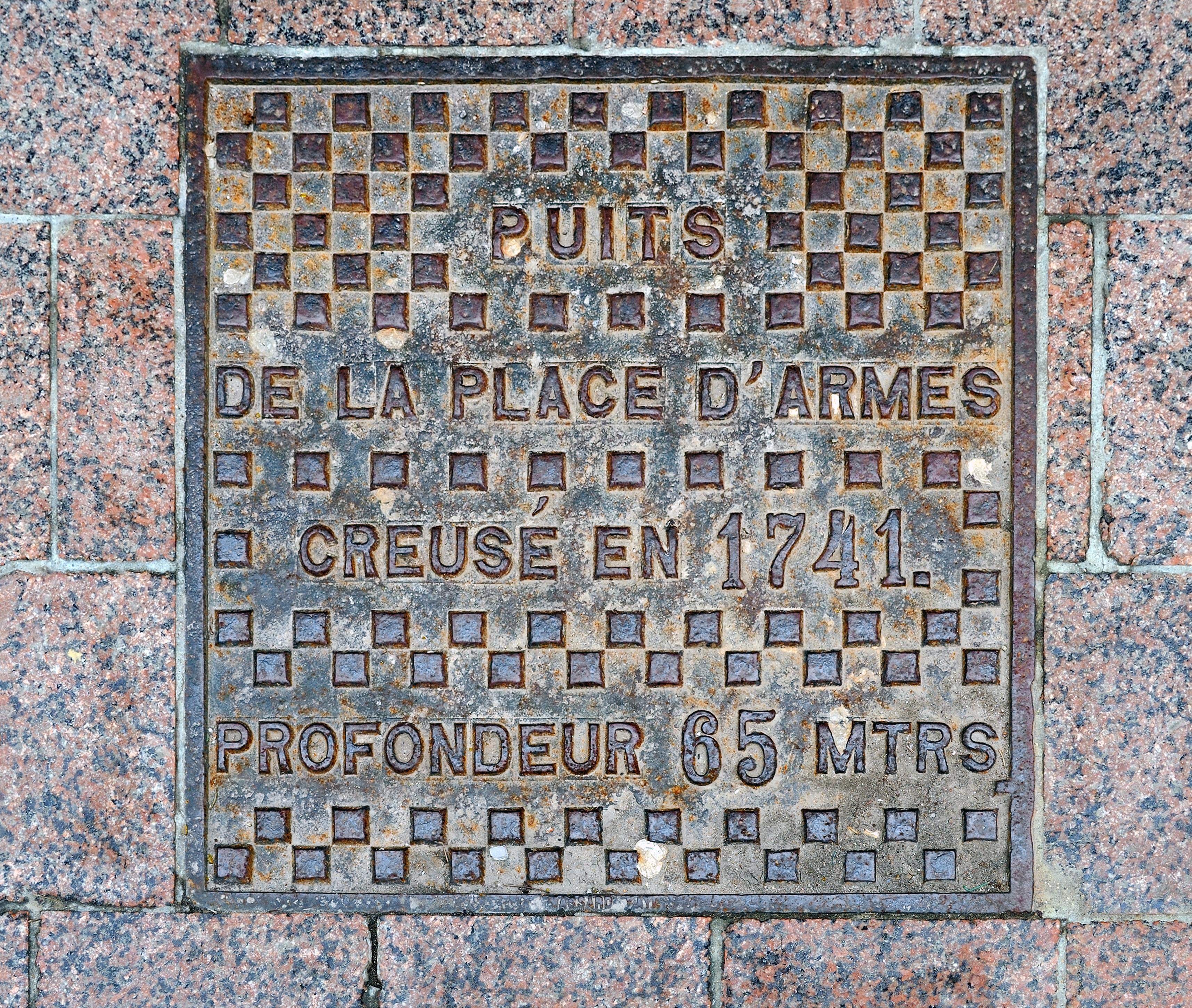 Luxembourg City, place d'Armes: manhole cover over the ancient well behind the kiosk. The well, which is 65 m deep, was dug in 1741 to supply the inhabitants of the ancient fortress with drinking water.